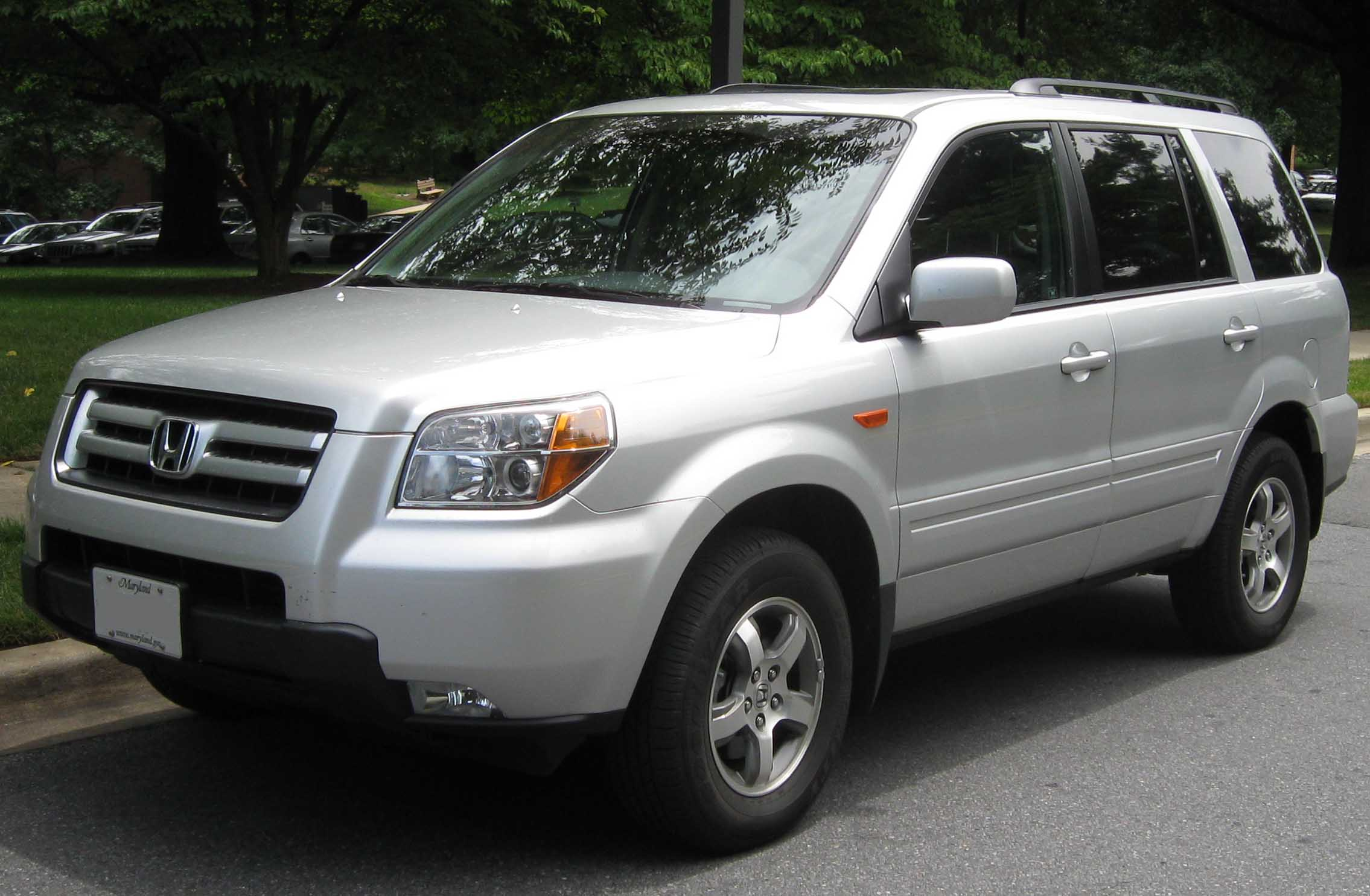 2006-2008 Honda Pilot photographed in Gaithersburg, Maryland, USA.